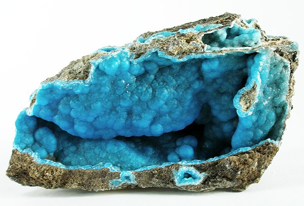 Hemimorphite Locality: Dulong Sn-Zn deposit, Dulong ore field, Maguan County, Wenshan Autonomous Prefecture, Yunnan Province, China (Locality at ) Size: 9.2 x 4.8 x 3.1 cm. A variety of the wonderful blue hemimorphites that have been coming from Wenshan over the past couple of years. This is very close to the "electric blue" ones that have been the most popular (though hard to get) of them. It is very lustrous - a smithsonite-like luster - and actually slightly translucent. The color in person is even more intense than the photo shows. An excellent, sculptural, vuggy specimen.